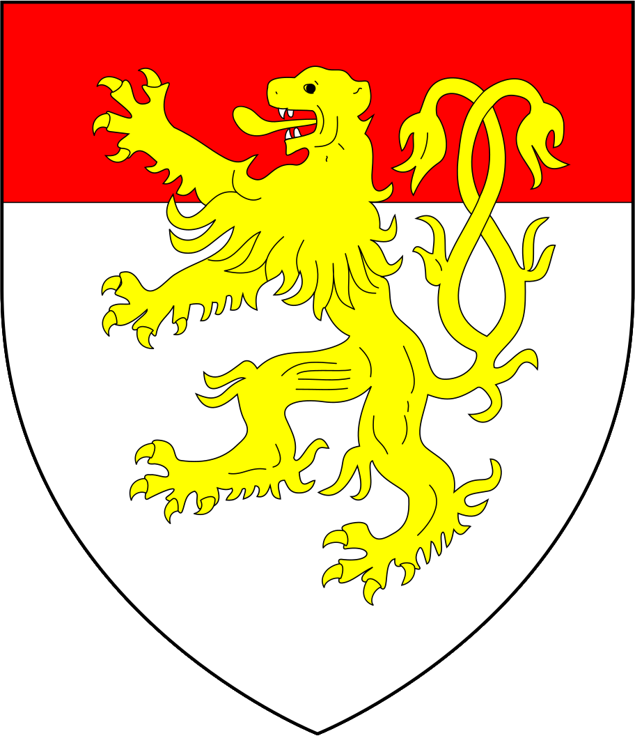 Arms of Maude Burghersh Chaucer: Argent, a chief gules overall a lion rampant double queued orAll evidence points to Thomas Chaucer adopting the arms of his mother Philippe Roet Chaucer